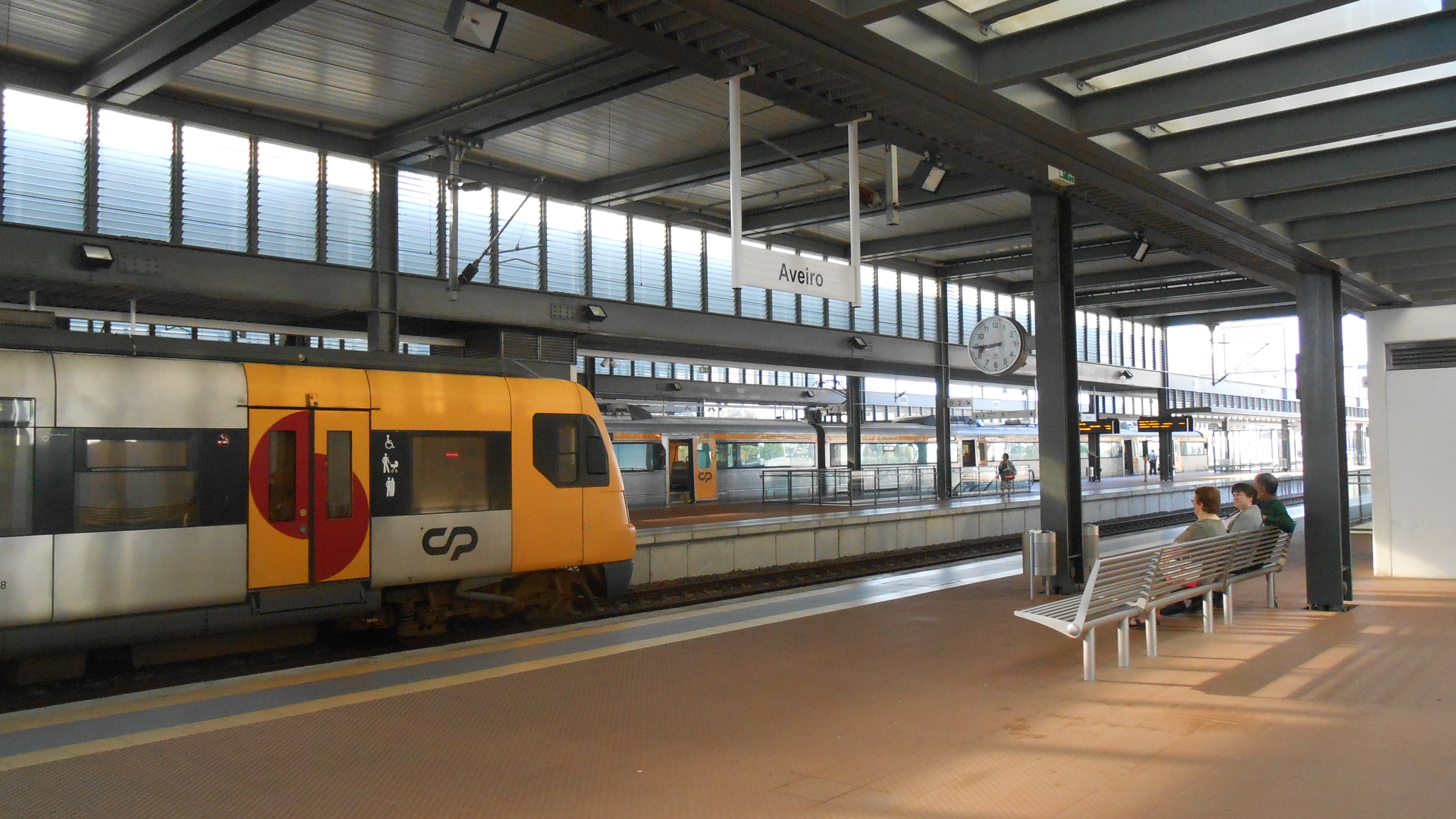 Interior of the Aveiro train station